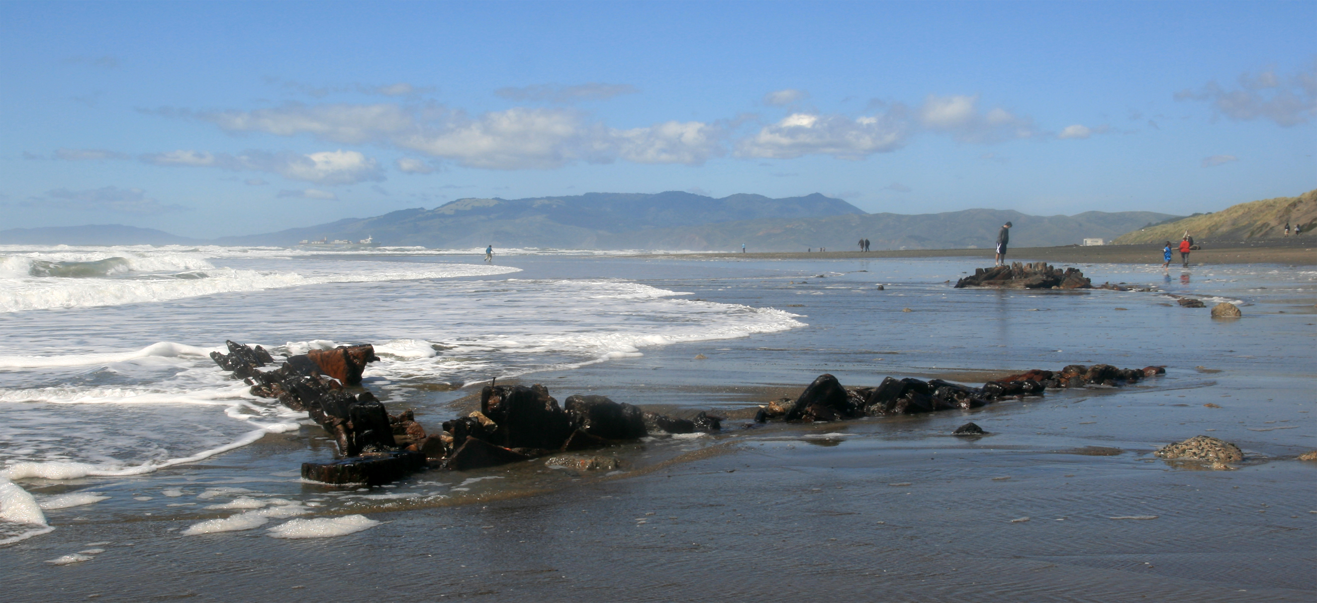 King Philip shipwreck at Ocean Beach. The image was taken after a storm and both the stern (background) and the bow(foreground) are seen. This is a rare sight indeed